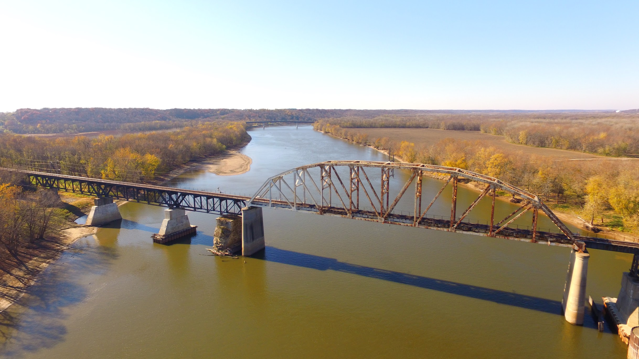 Shot with a DJI Phantom 4 drone